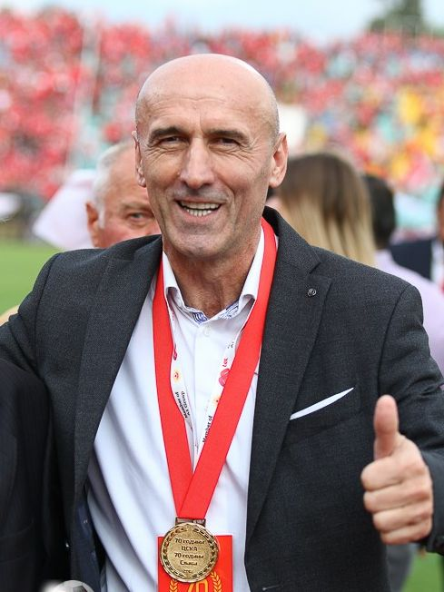 Miodrag Ješić (born 30 November 1958) is a Serbian football manager and former footballer who last managed Saudi Professional League side Al-Ettifaq.